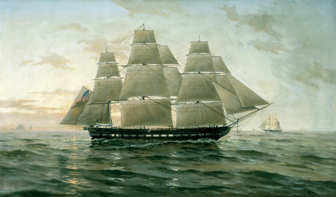 Original caption: “Photo # NH 59556-KN USS Chesapeake. Painting by F. Muller”